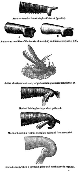 Illustration of elephant trunks